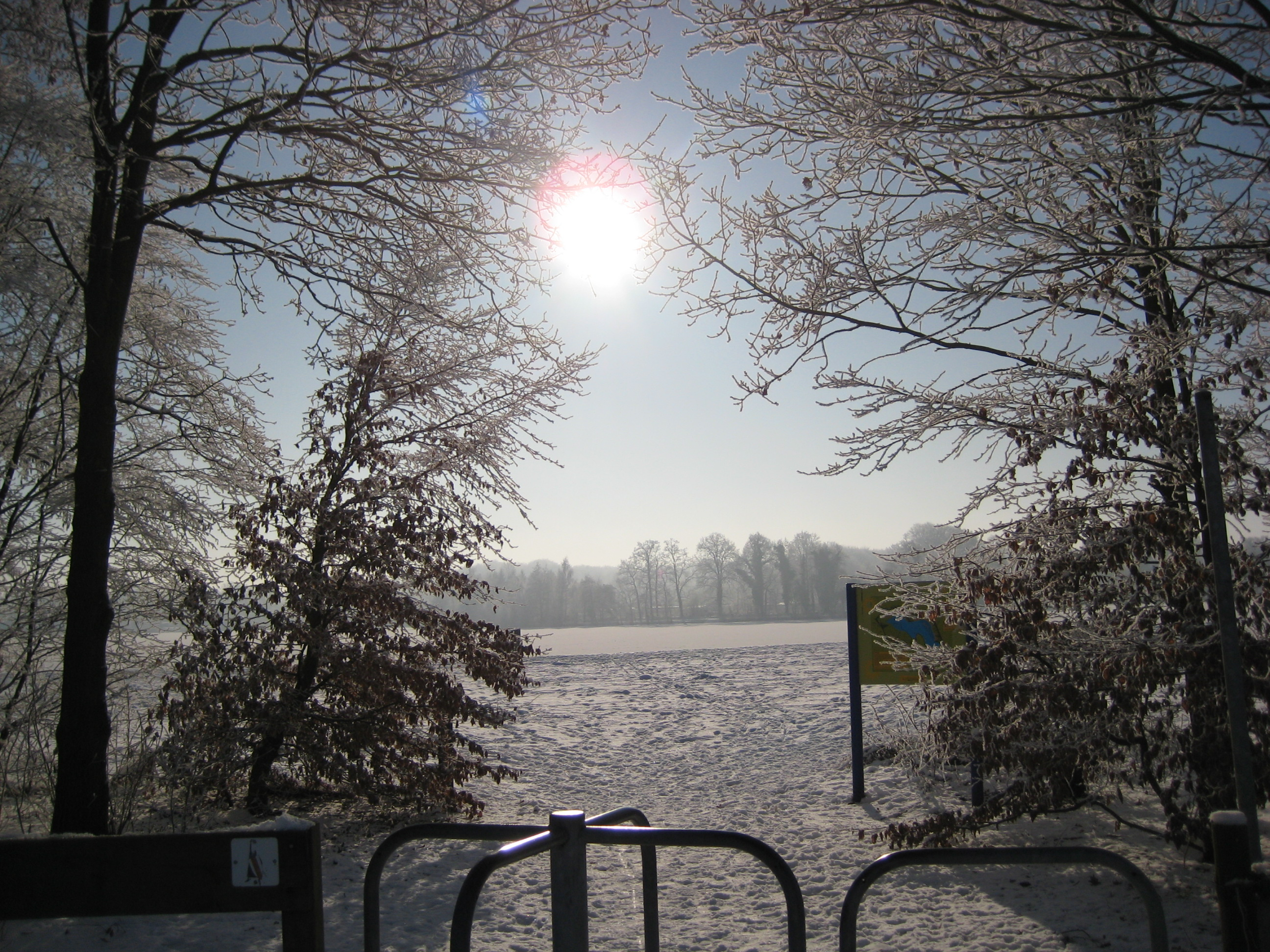 Picture of the entrance of the Hilgelo lake in Meddo, the Netherlands, in wintertime